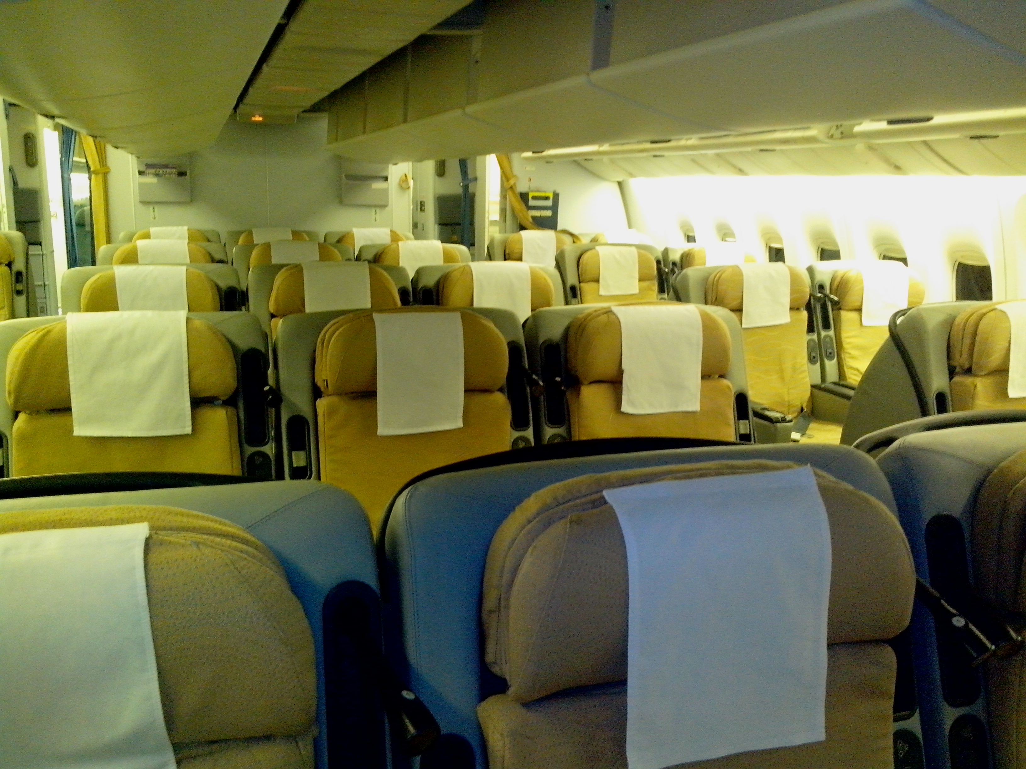 PIA B777 Business Class